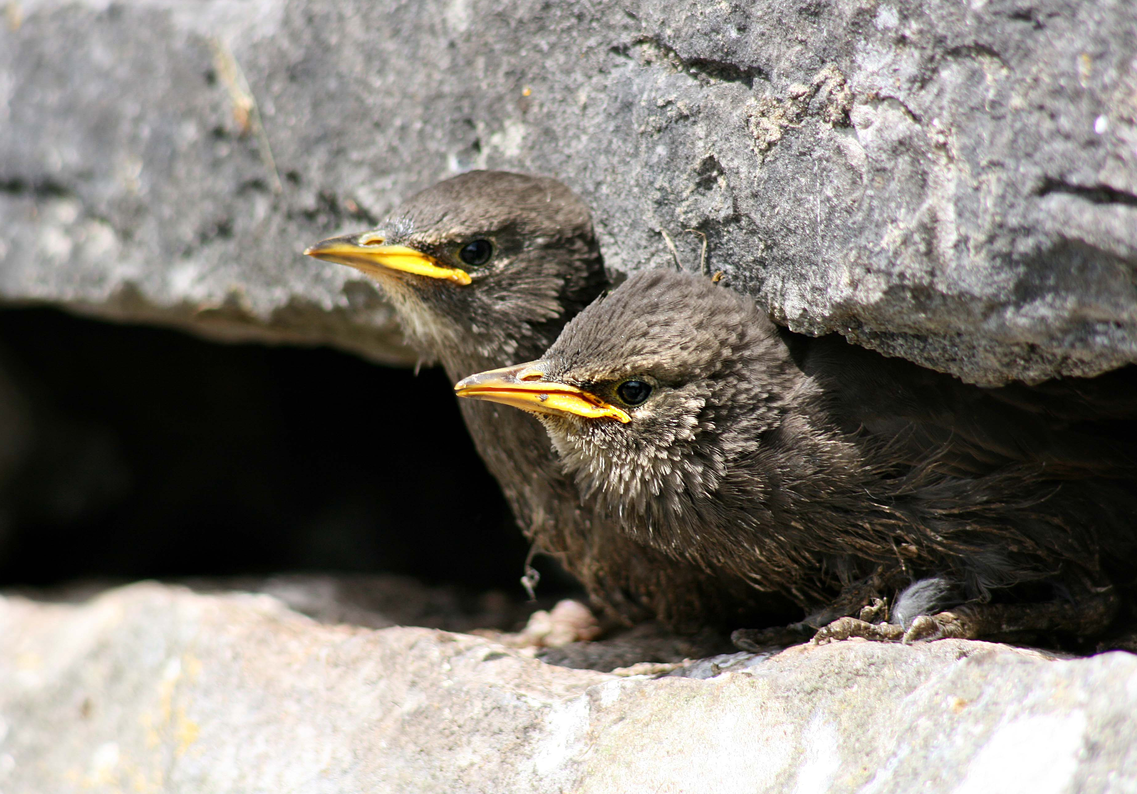 Starling chicks sitting in a gap in a stone wall getting fed every few minutes by the mother when she returned with food. If I got too close they disappeared inside, then popped back out when I stepped away. Clarinbridge, Galway, Ireland.